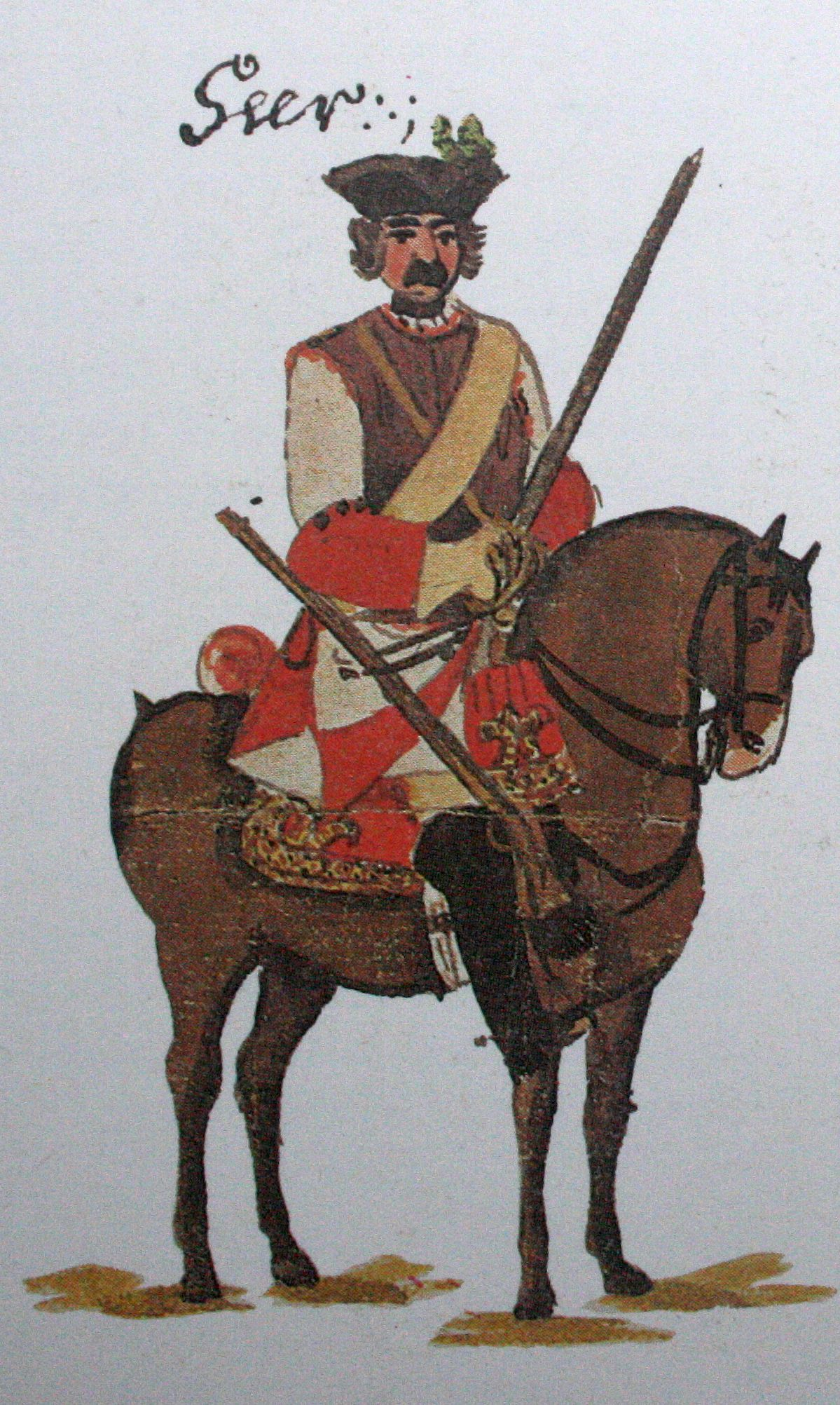 Imperial Cuirassier Regiment K 5